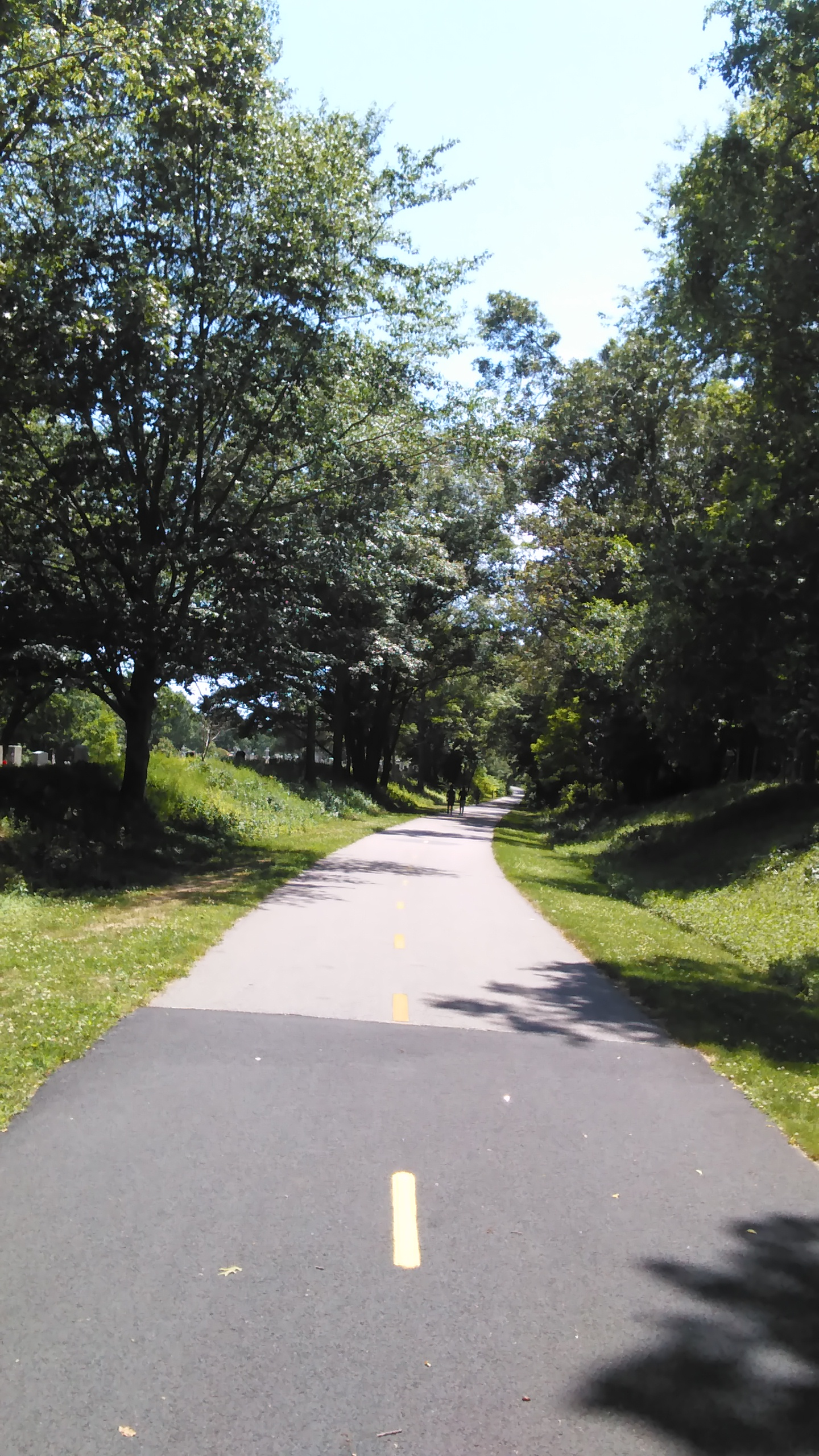 The William C. O'Neill Bike Trail in South Kingston, Rhode Island